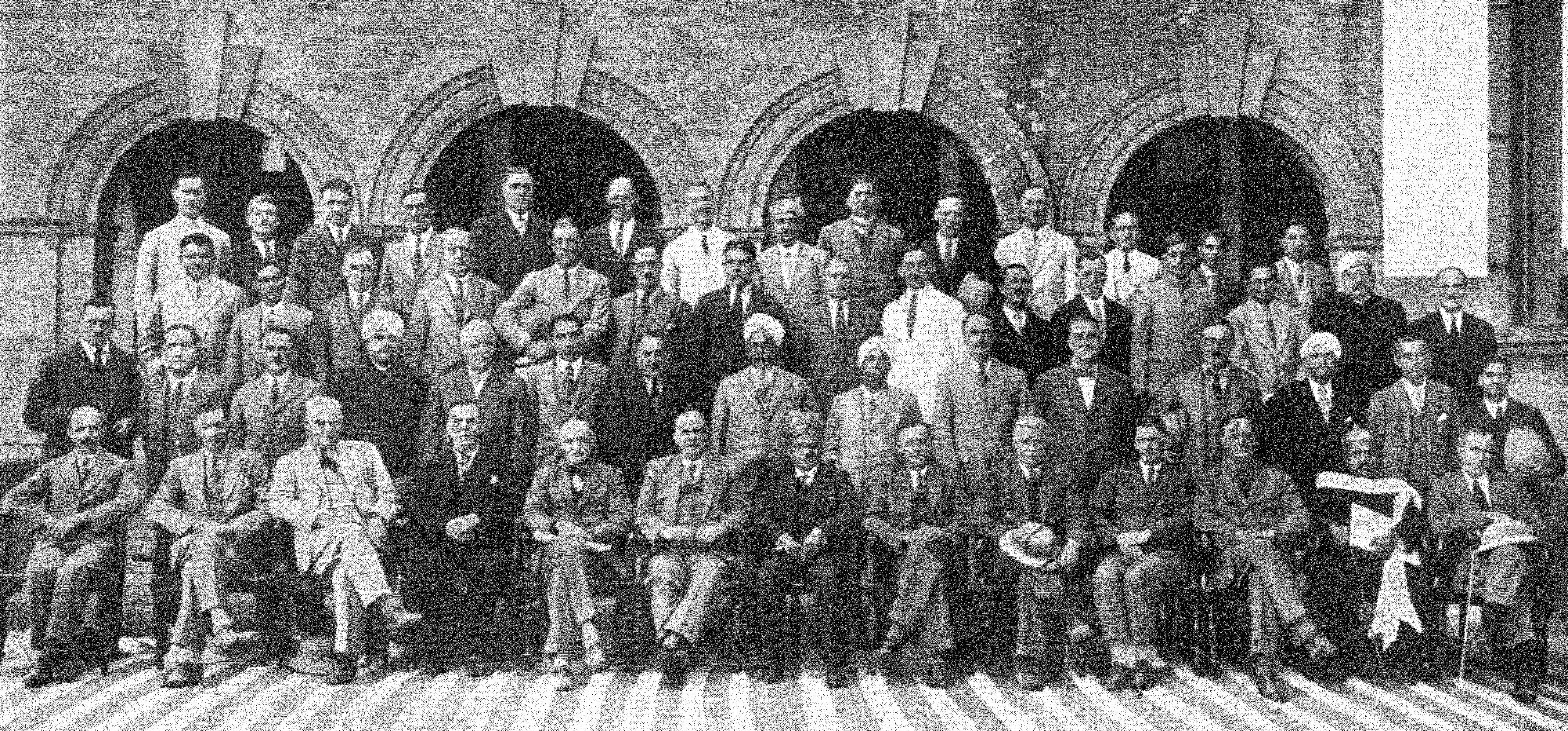 Fifteenth Meeting of the Board of Indian Agriculture 1929 at Pusa Fourth row. 1. C. A. Maclean. 2. Col. Matson. 3. W. MacRae. 4. Col. G. Mellor, 5. F. J. F. Shaw. 6. Churchill. 7. P. B. Richards. 8. A. M. Ulvi. 9. J. S. Garewal. 10. F. D. Odell. 11. R. C. Woodford. 12. C. V. Sane. 13. A. K. B. Cazi. 14. P. V. Isaac. Third row. 1. Afzal Hussain. 2. J. N. Chakravarty. 3. G. P. Hector. 4. F. J. Plymen. 5. W. Sayer. 6. J. H. Ritchie. 7. S. M. A. Shah. 8. D. P. Johnston. 9. T. F. Quirke. 10. W. Harris. 11. P. T. Saunders. 12. N. N. Bose. 13. M. S. A. Hydari. 14. J. N. Sen. 15. F. J. Warth. Second row. 1. G. S. Henderson. 2. D. R. Sethi. 3. A. P. Cuff. 4. H. P. Pandya. 5. W. Smith. 6. Z. R. Kothawala. 7. R. W. Littlewood- 8. Charan Sisoh. 9. Harchand Singh. 10. Major P. B. Riley. 11. P. J. Kerr. 12. J. H. Walton. 13. P. B. Vagholkar. 14. Rao Bahadur B. Viswanath 15. C. Mayadas. First row (Sitting on Chairs.) 1. W. Burns. 2. A. McKerral. 3. W. Roberts. 4. B. C. Burt. 5. P. H. Carpenter. 6. Sir Frank Noyce. 7. Dewan Bahadur Sir T. "Vijayaraghavacharya. 8. W. H. Harrison. 9. D. Milne. 10. G. R. Hilson. 11. K. Hewlett. 12. G. K. Devadhar. 13. F. Ware.